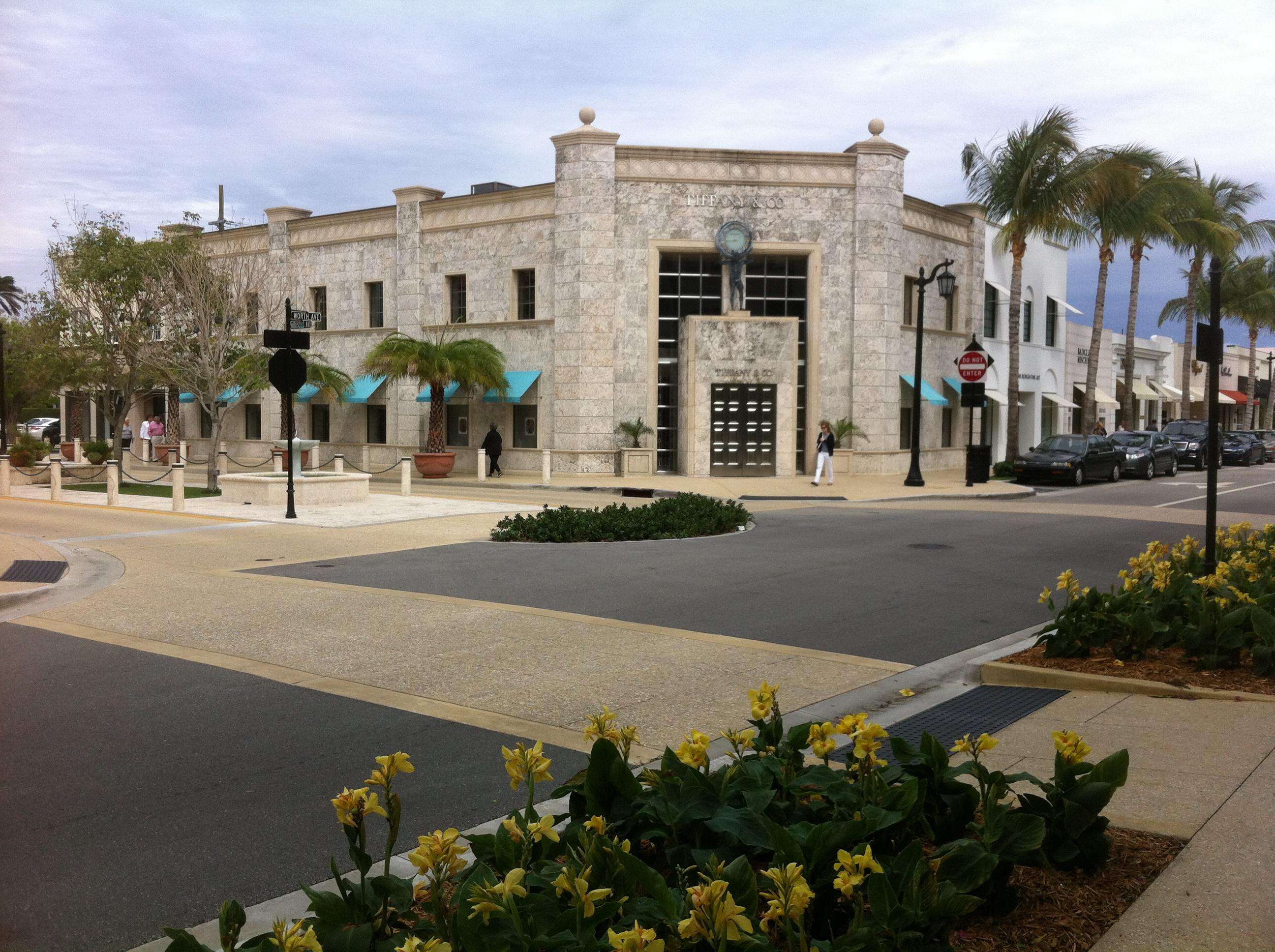 Worth Avenue and Hibiscus Avenue in Palm Beach, Florida. Visible is the Cartier store on the corner.